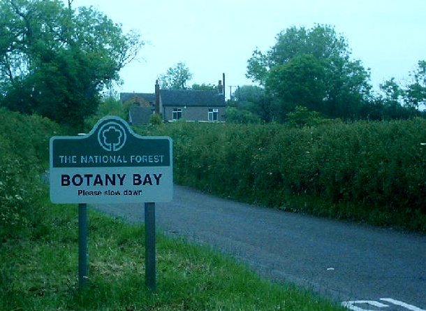 Botany Bay, a small village in South Derbyshire England